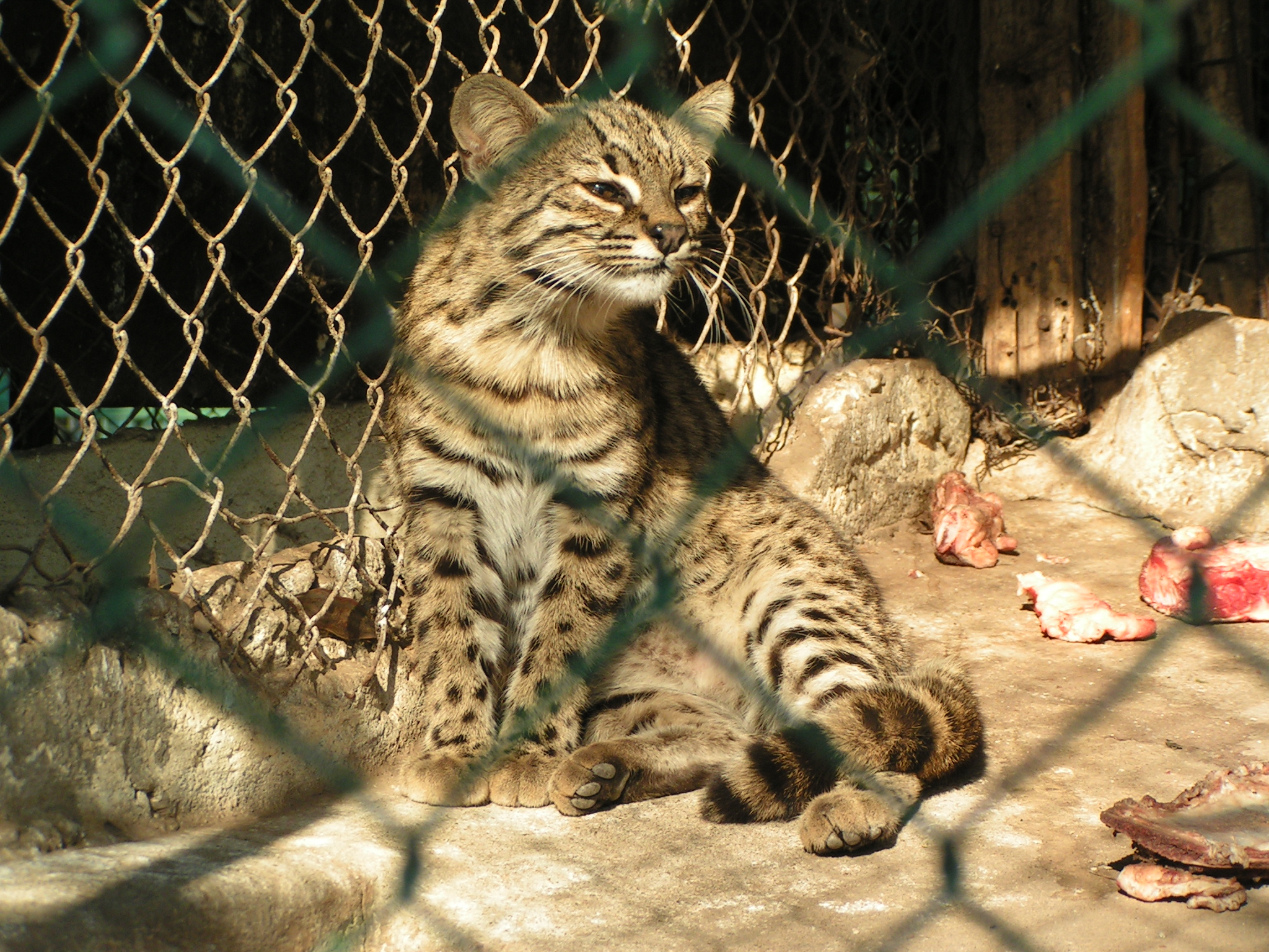 Gato montés americano (Oncifelis geoffroyi)